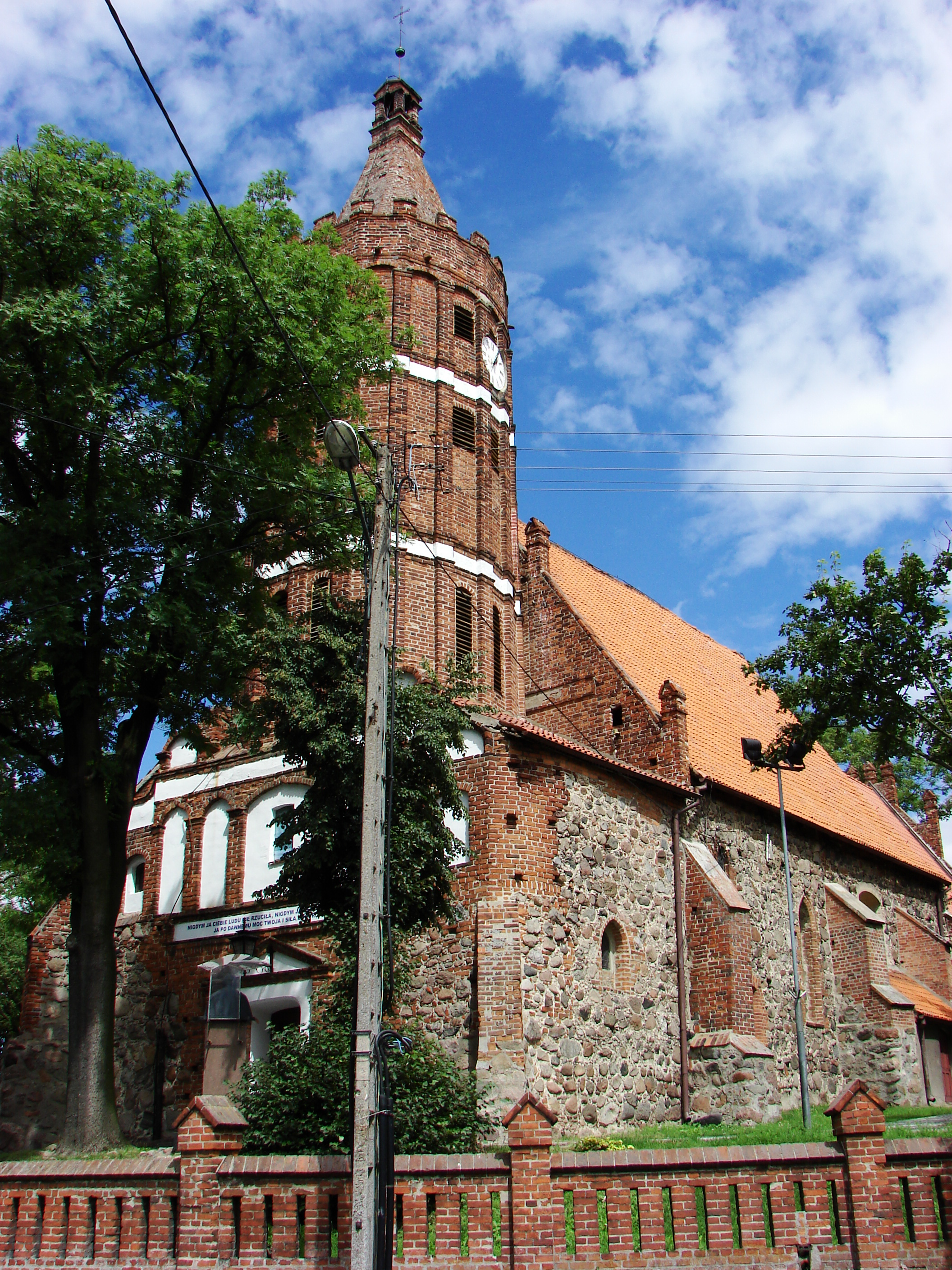 Lisewo, Chełmno county, parish church